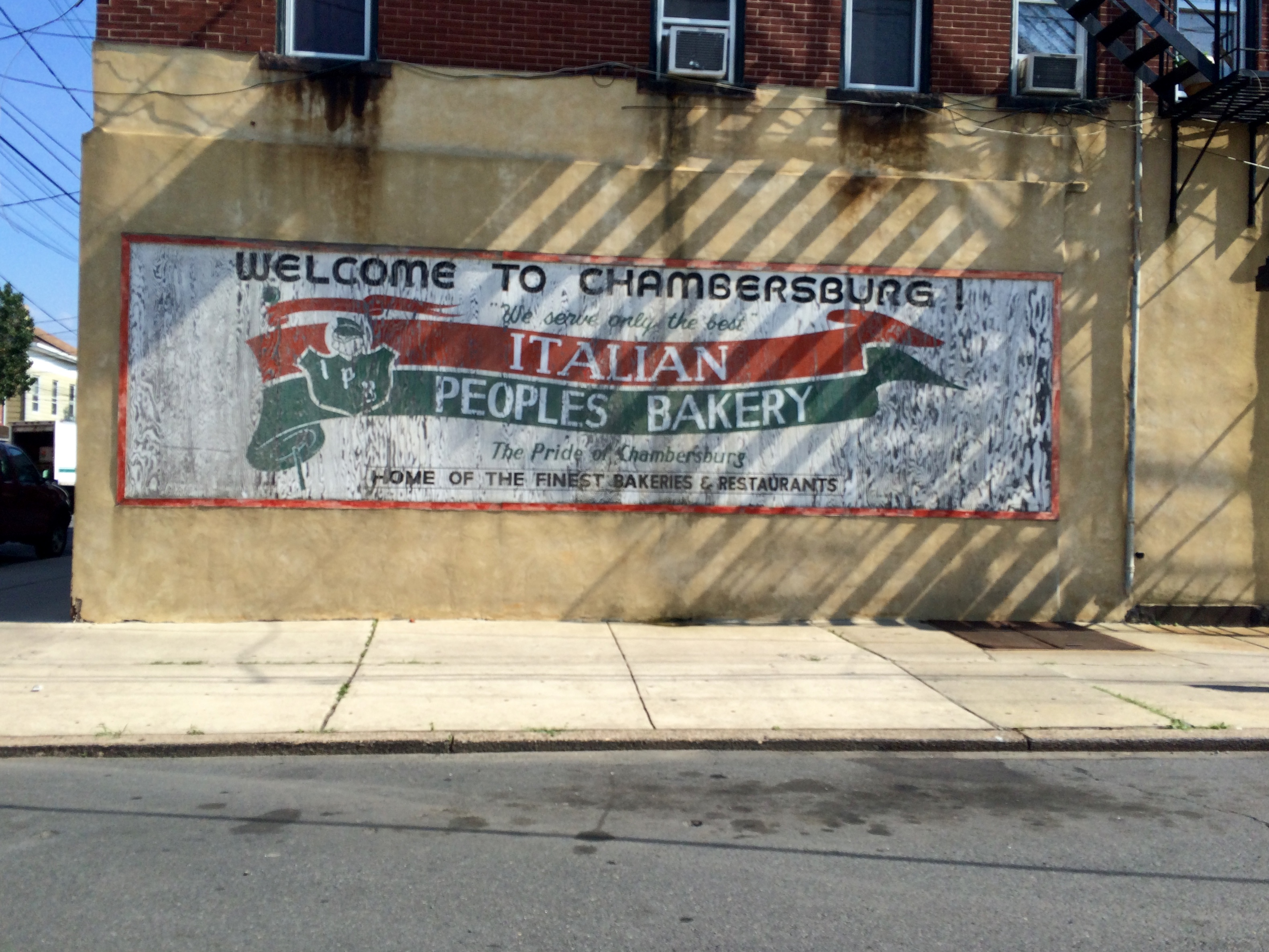 A sign for the Italian People's Bakery on Butler Street in Trenton, New Jersey